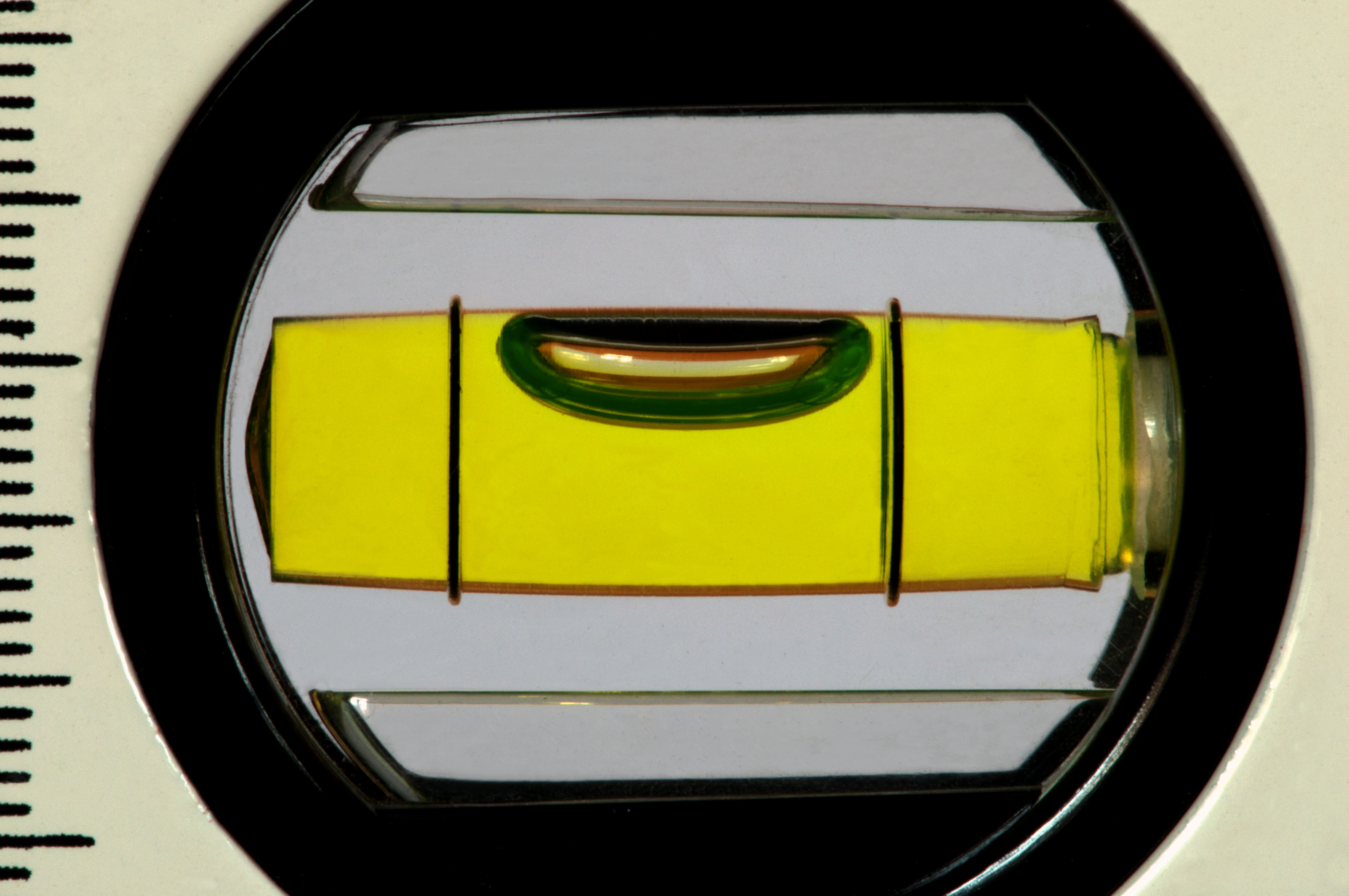 Bubble Level